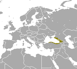 Caucasian Mole (Talpa caucasica) range